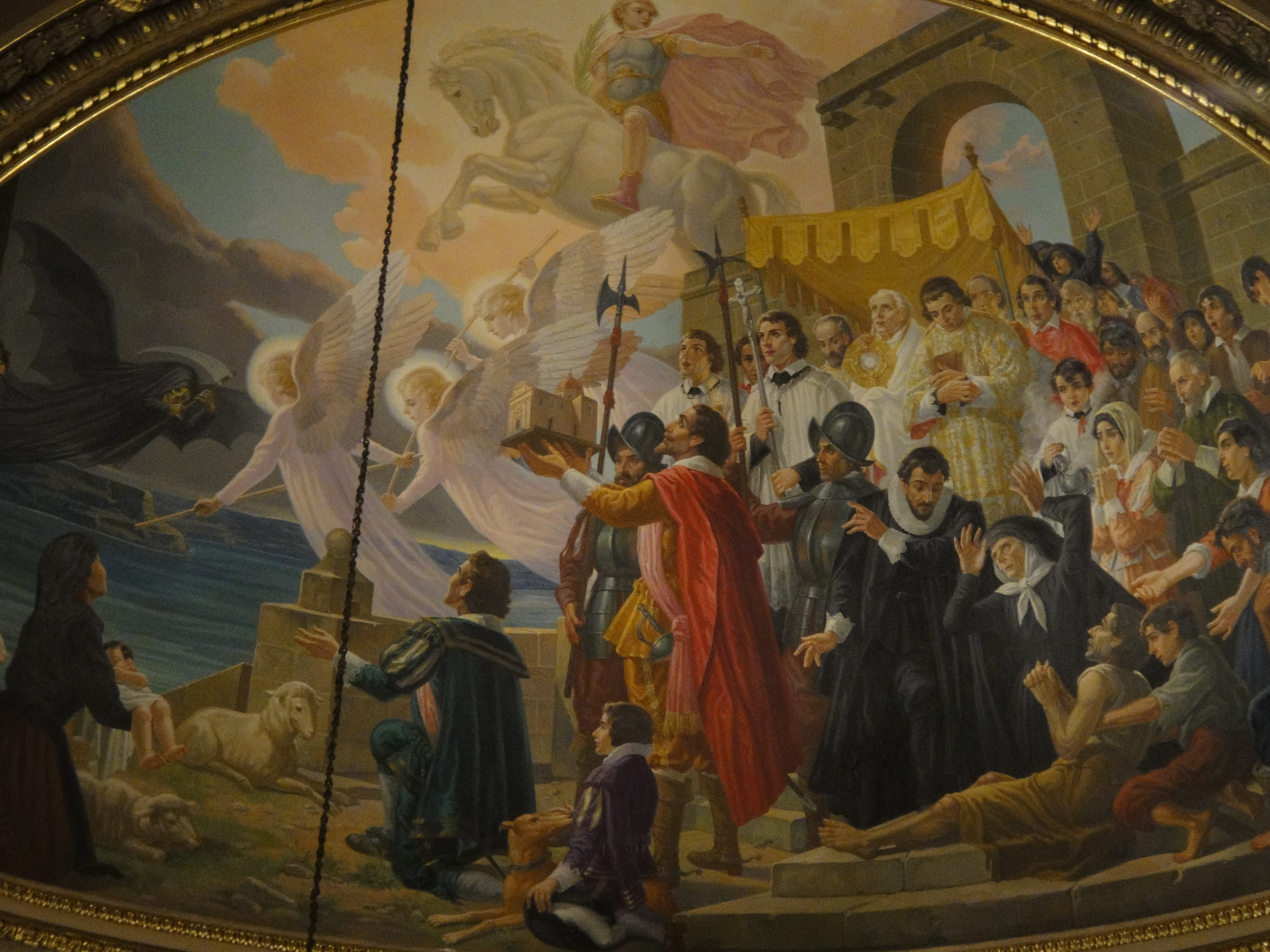 Painting showing St George protecting Gozo against the plague by Giovanni Battista Conti.